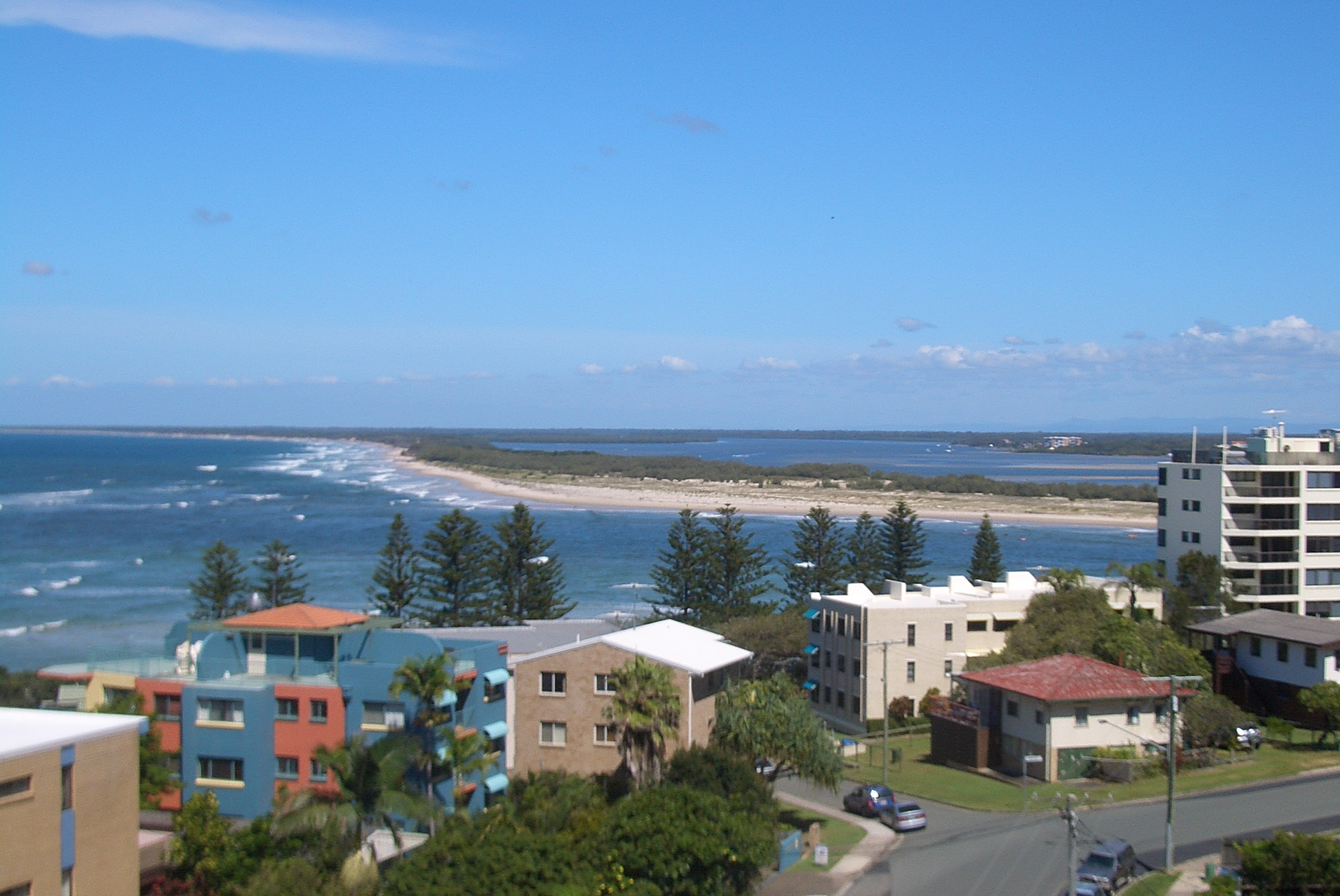 A view of Caloundra and a nearby section of Bribie Island